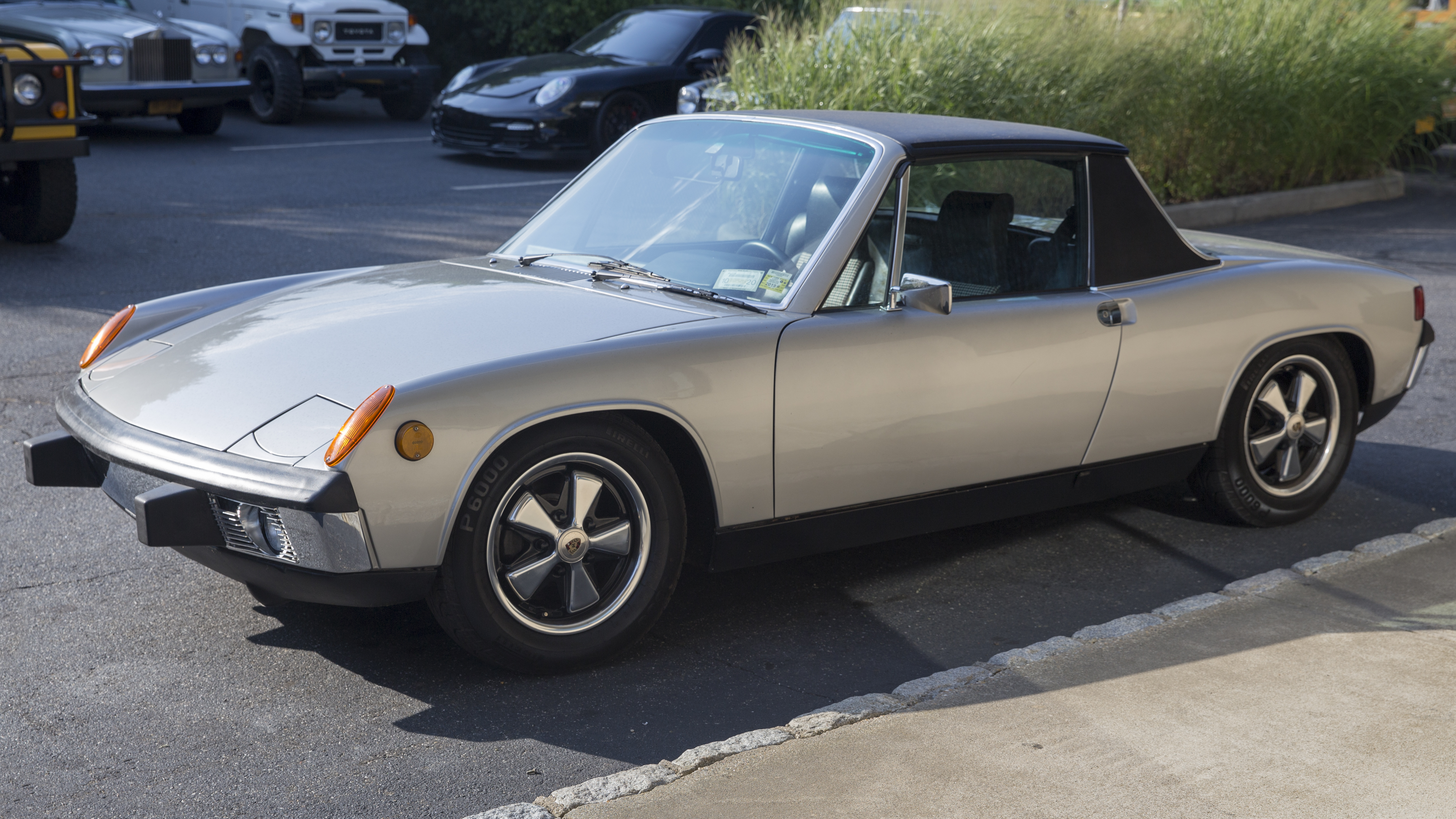 1973 Porsche 914 1.7. Sold new to San Bernardino, CA, emigrated to Canada in 1992 and returned to the US (Long Island) in 2011. A nice, unmolested 914.